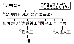 the geneology of Goguryeo( 1st King ~ 6th King) / 高句麗王系図(初代～6代)